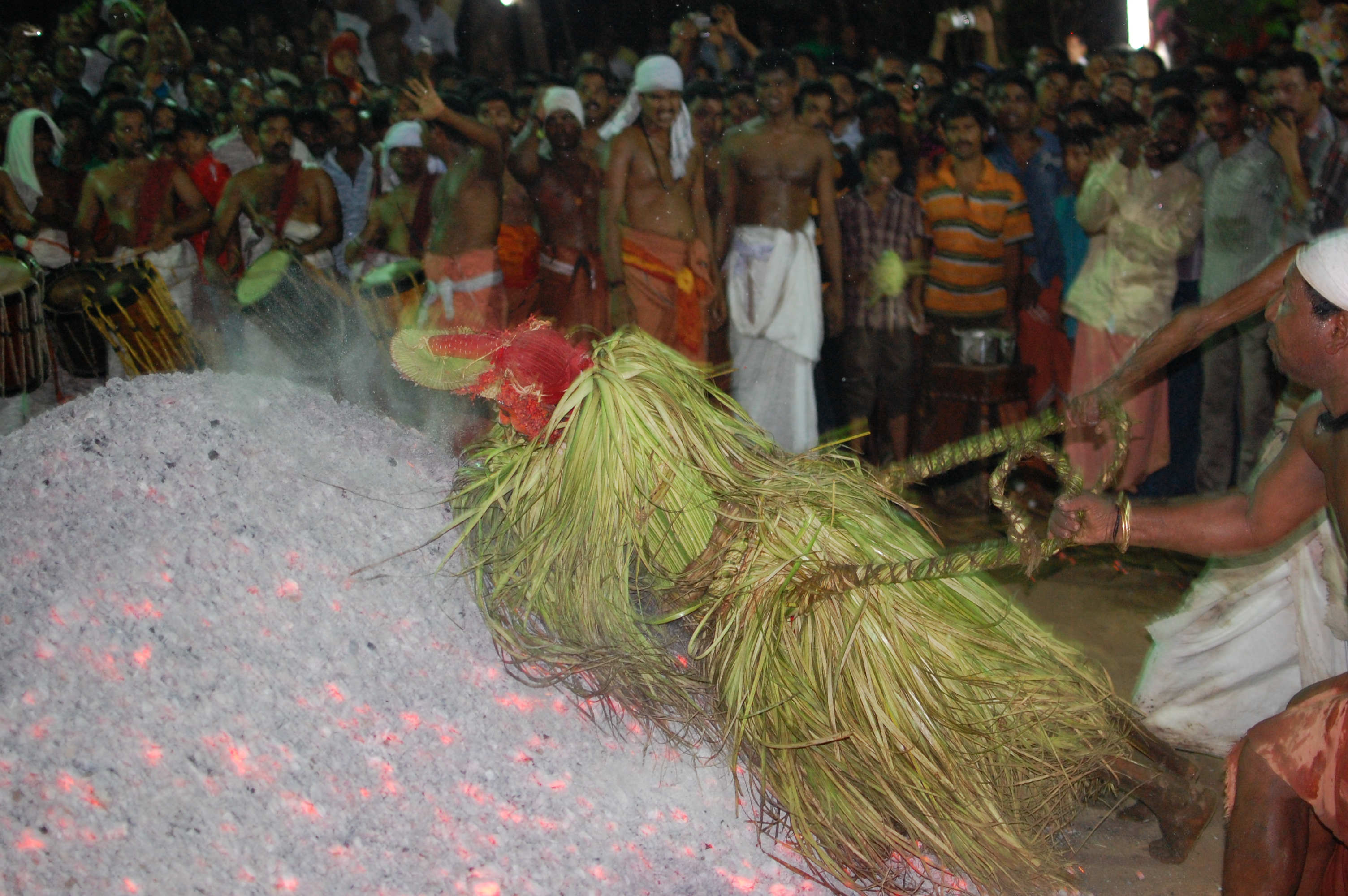 Theechamundi jump